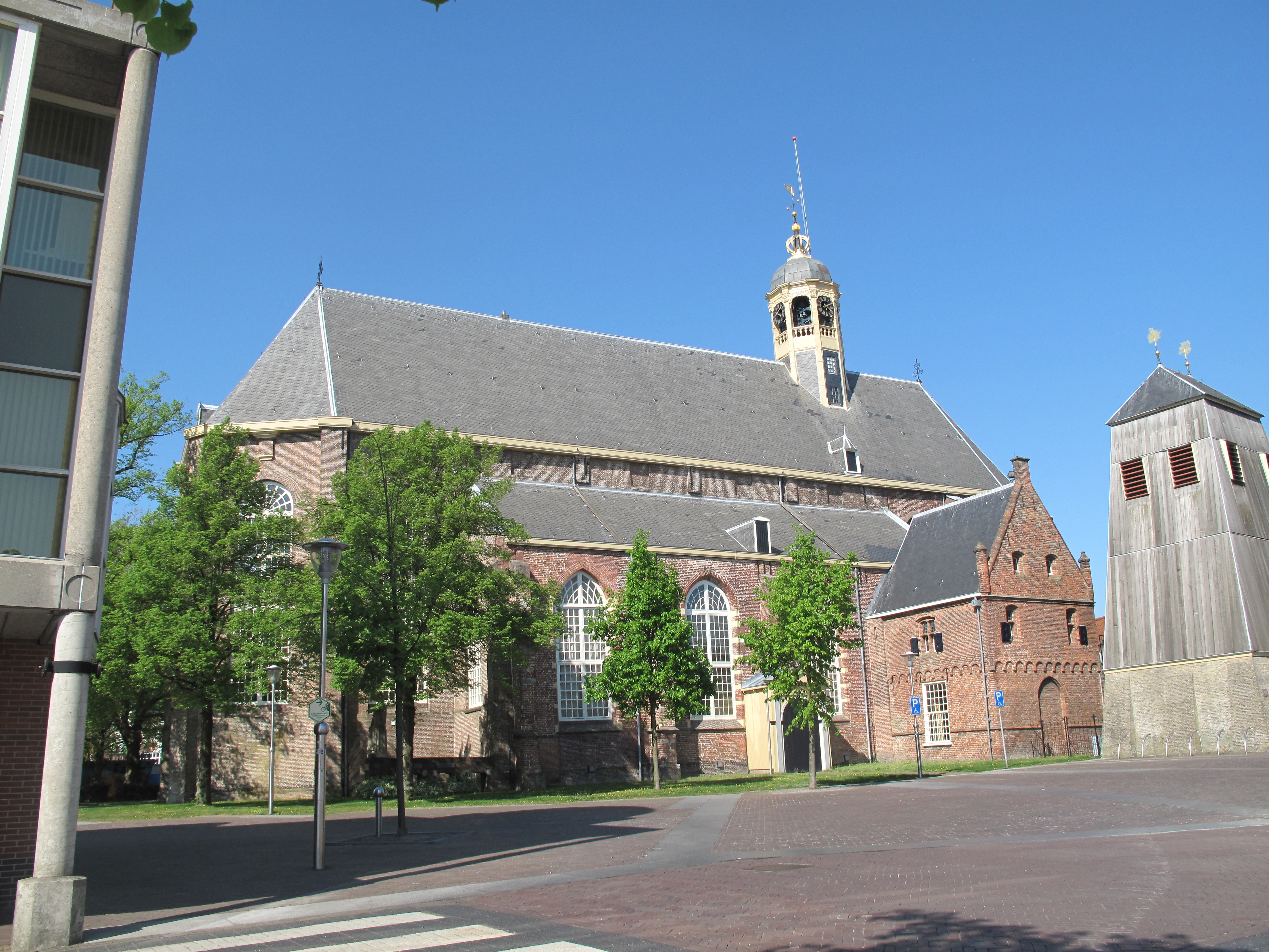 Sneek, church